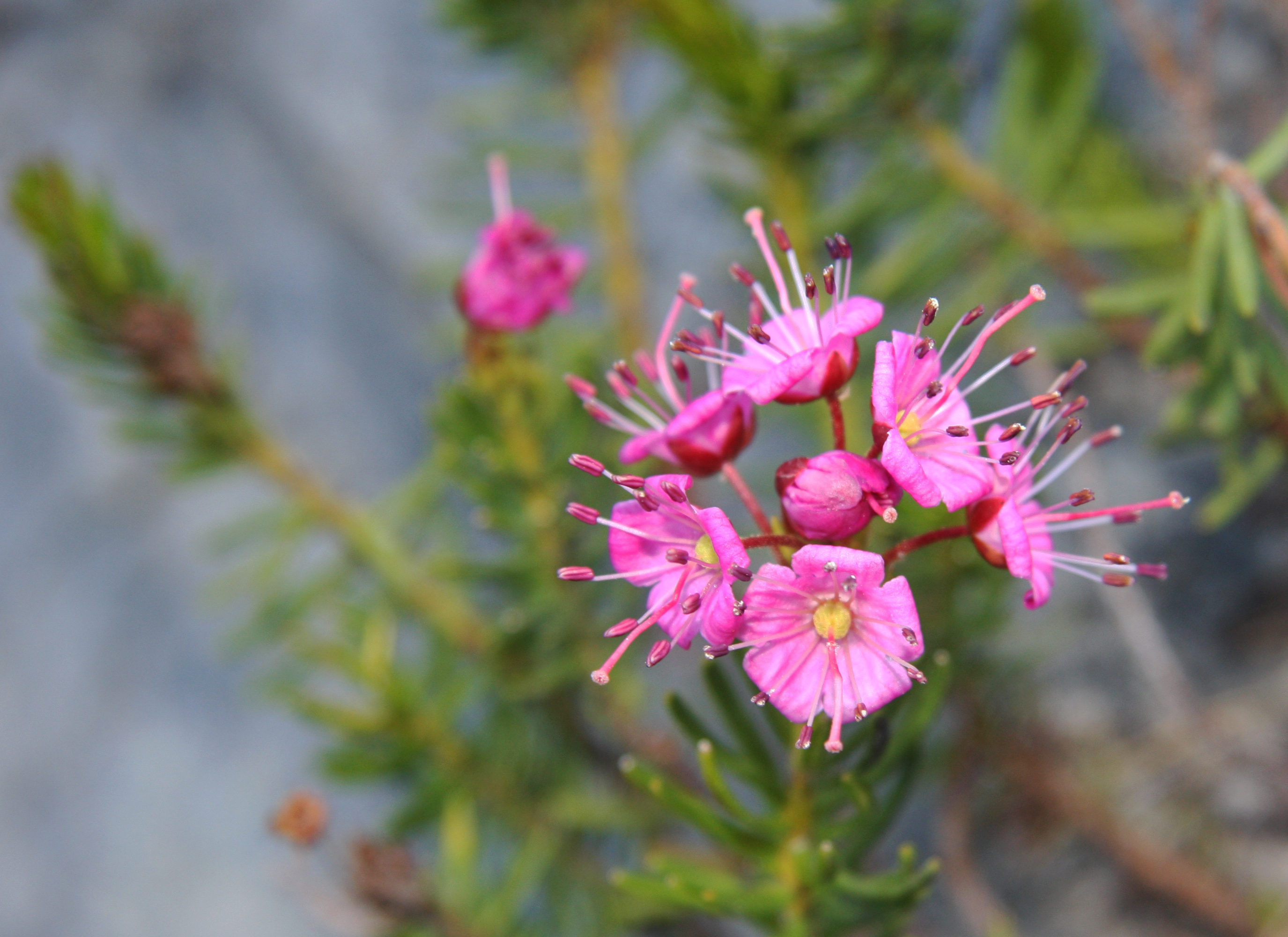 Red heather (Phyllodoce breweri) closeup of flowers. At 2800m on SW bank of Barrett Lake, Sierra Nevada, California.